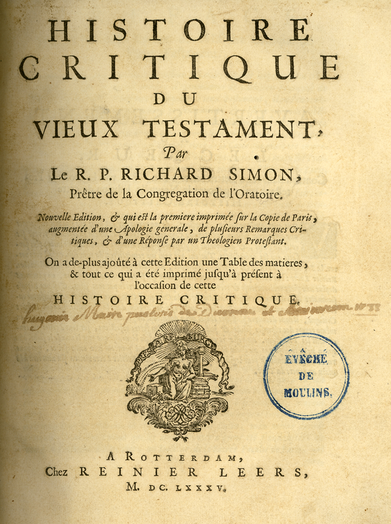 Title page of the Histoire critique du vieux testament by Richard Simon, published in 1685 by Reinier Leers at Rotterdam, Netherlands.